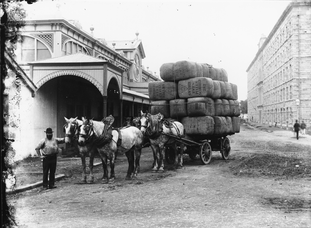 Format: Glass plate negative. Repository: Tyrrell Photographic Collection, Powerhouse Museum Part Of: Powerhouse Museum Collection General information about the Powerhouse Museum Collection is available at Persistent URL: [1] Acquisition credit line: Gift of Australian Consolidated Press under the Taxation Incentives for the Arts Scheme, 1985